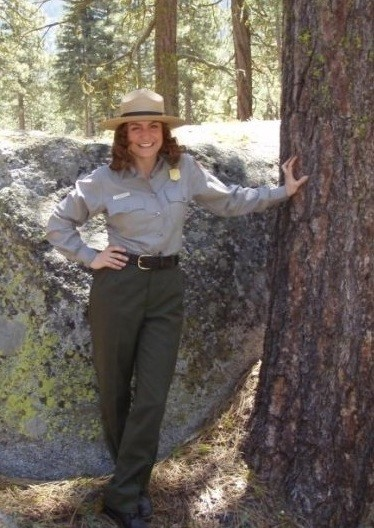 Ranger Deanna Wulff